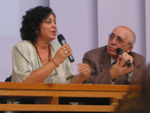 Giulia Paola di Nicola, conferenza Loppiano 2005.JPG